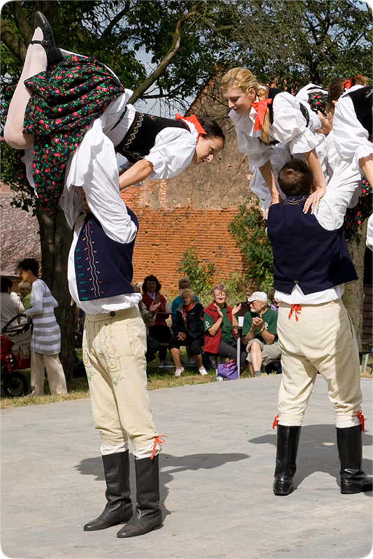 a big lifter.